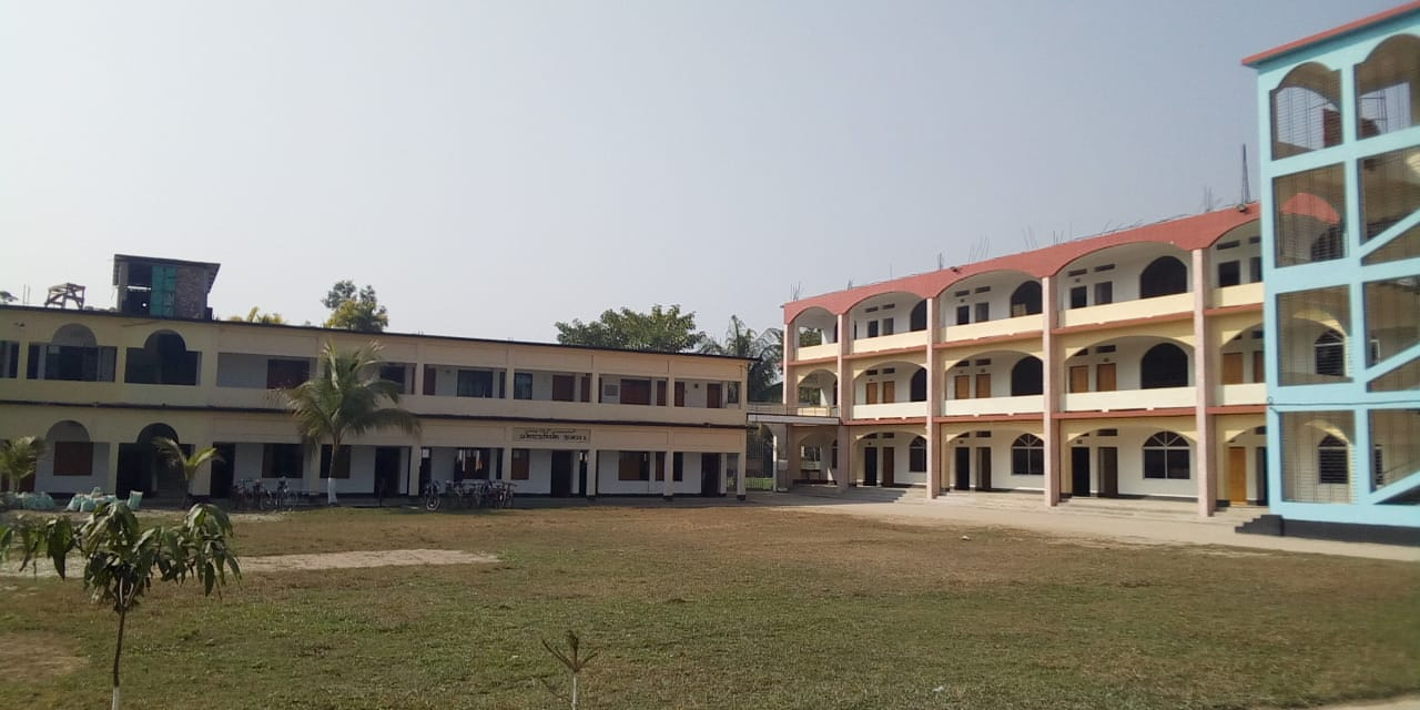 A landscape photograph of Satpur Kamil Madrashah.